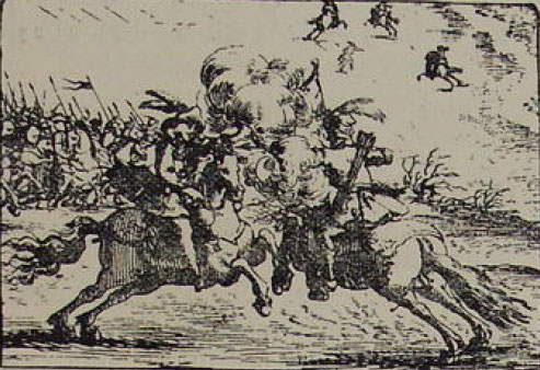 Boj Smalenskaj Šlachty